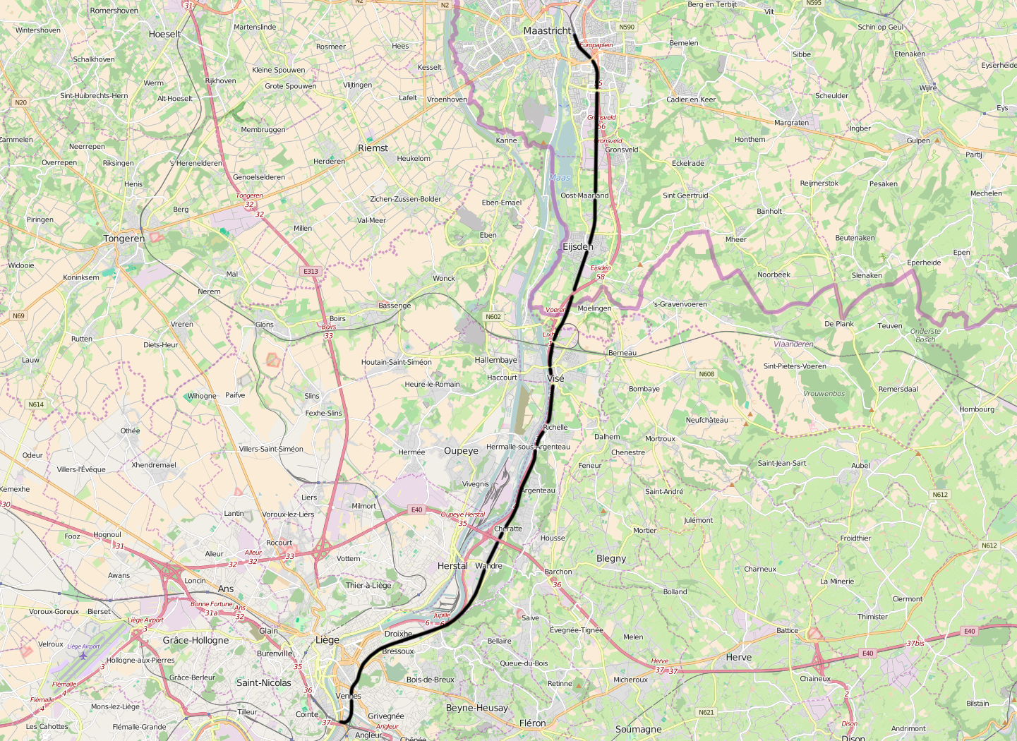 Belgian Railway Line 40, Y Val Benoît - Maastricht